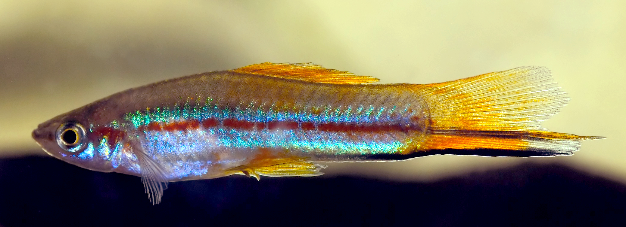 This image shows a Green swordtail (Xiphophorus helleri).